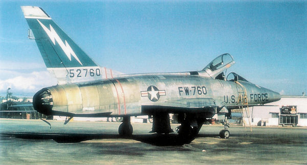 A U.S. Air Force North American F-100D-40-NH Super Sabre (serial 55-2760) of the 49th TFW Etain Air Base, France. This aircraft was later sold to Turkey.